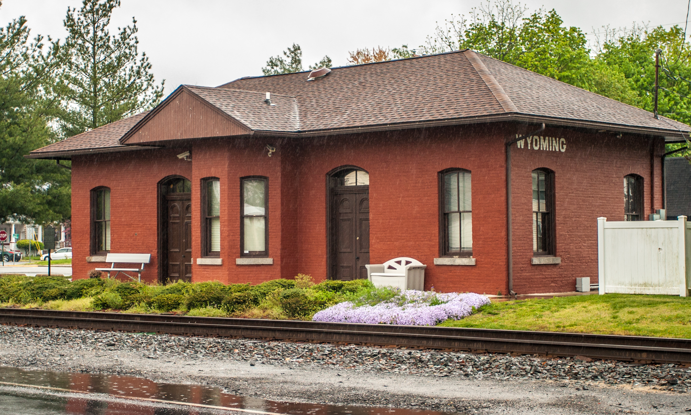 Wyoming, Delaware train depot in Wyoming Historical District